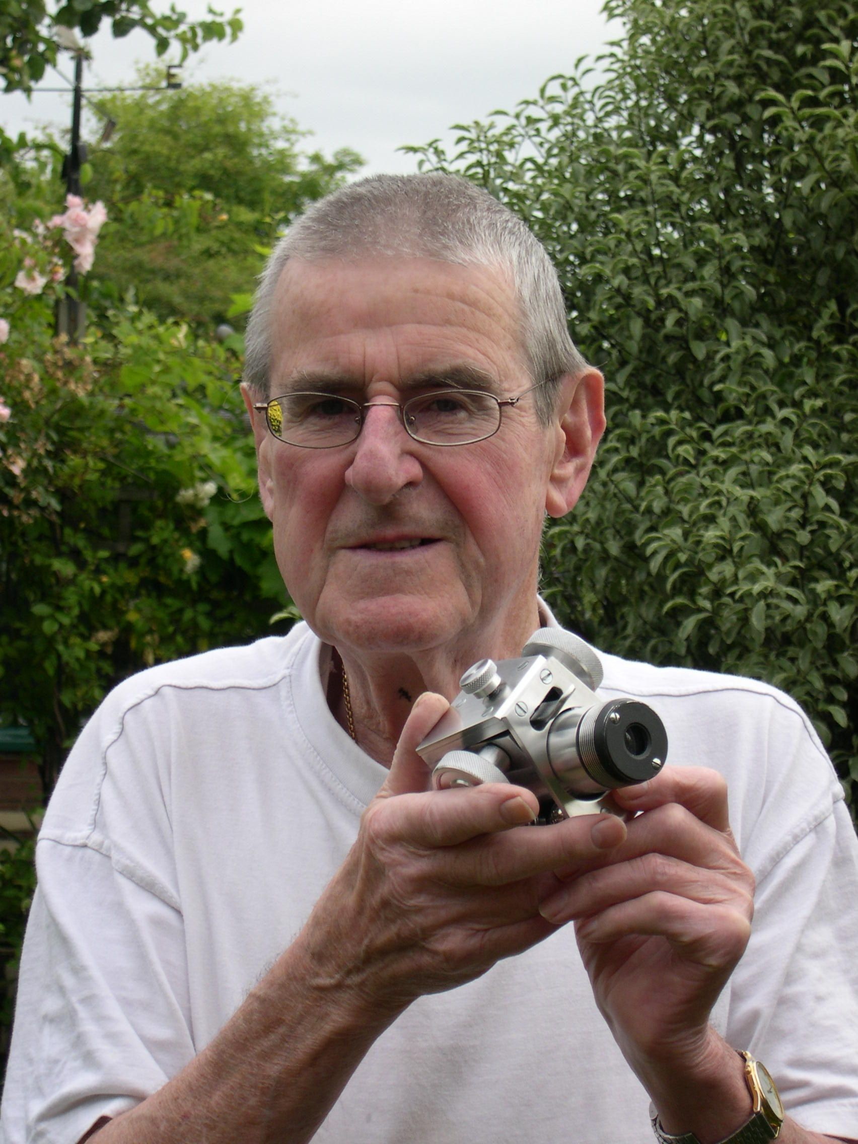 John Wall - retired design engineer Inventor of the Crayford focuser. ATM, optical research , painting, making things. Writing articles. Inventor of the Zerochromat retrofocally corrected refractor, discoverer of a new refractor concept, the Hypochromat.